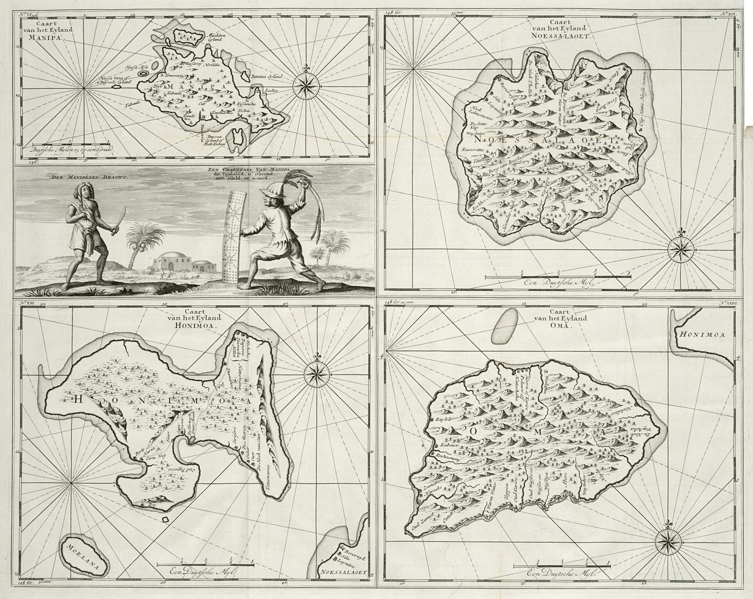 Maps of the islands of Manipa, Noesa Laut, Oma and Honimoa and a depiction of Manipese fencers. Caart van het Eyland Manipa / Caart van het Eyland Noessa-Laoet / Caart van het Eyland Oma / Caart van het Eyland Honimoa / Der Manipesen Dracht / Orangkaya van Manipa. The image is taken from the work 'Oud en Nieuw Oost-Indiën' by François Valentyn. Cf. KITL, Leiden, inv. nr. 37C-171 and Scheepvaartmuseum, Amsterdam, inv. nr. SNSM_b0032(109)06[chart164] and SNSM_b0032(109)06[kaart165].